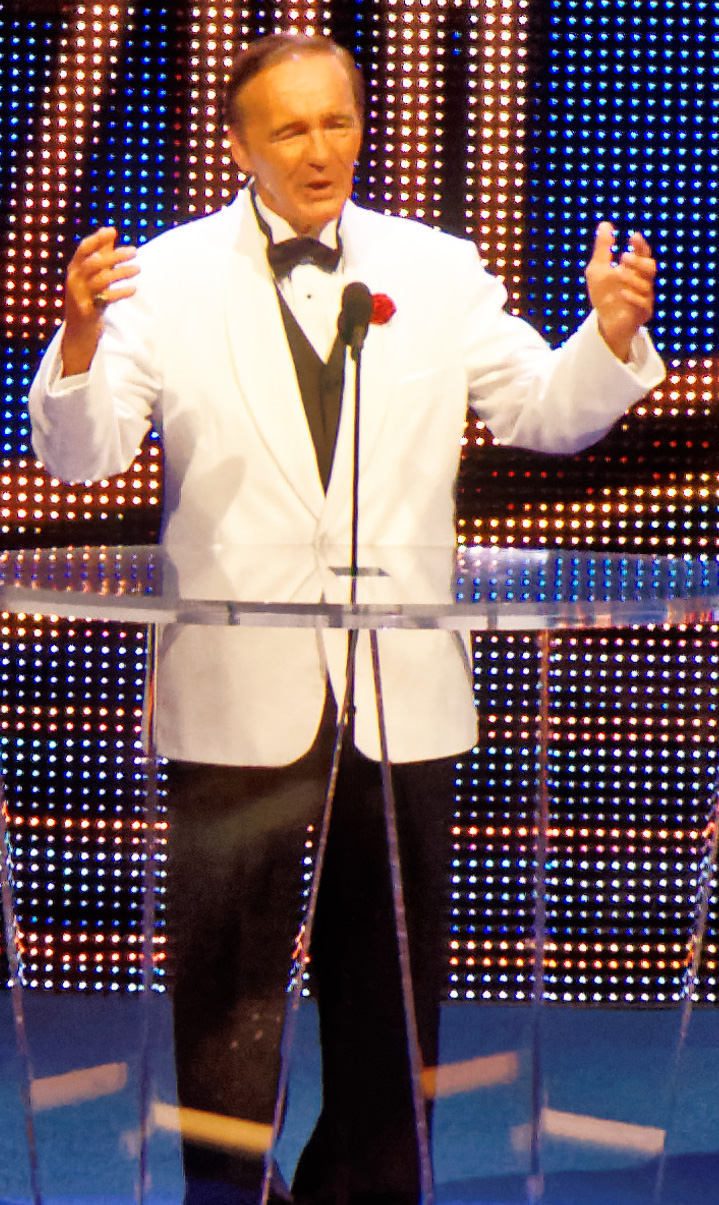 Larry Zbyszko at the 2015 WWE Hall of Fame ceremony